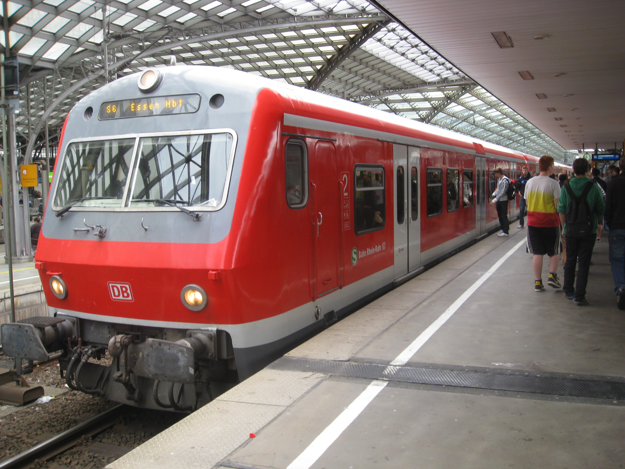 X-class coaches of S-Bahn Rhein-Ruhr at Cologne central station.